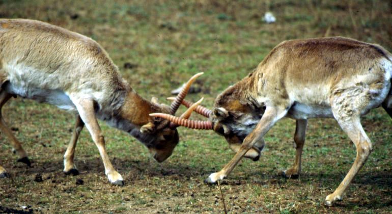 Saiga antelope. Credit: Richard Reading